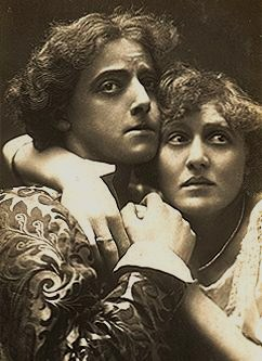 Harcourt Williams & Margaret Halstan in Romeo and Juliet, Queen's Theatre, Manchester - publicity still (cropped)